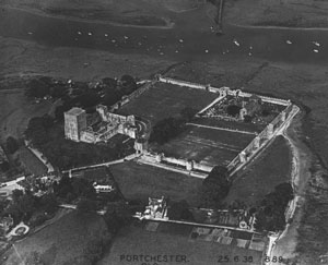 An aerial view of Portchester Castle in Hampshire. The Ashmolean Museum's description is "Porchester Castle taken 25 June 1938 (Album Ref 16, 10)".